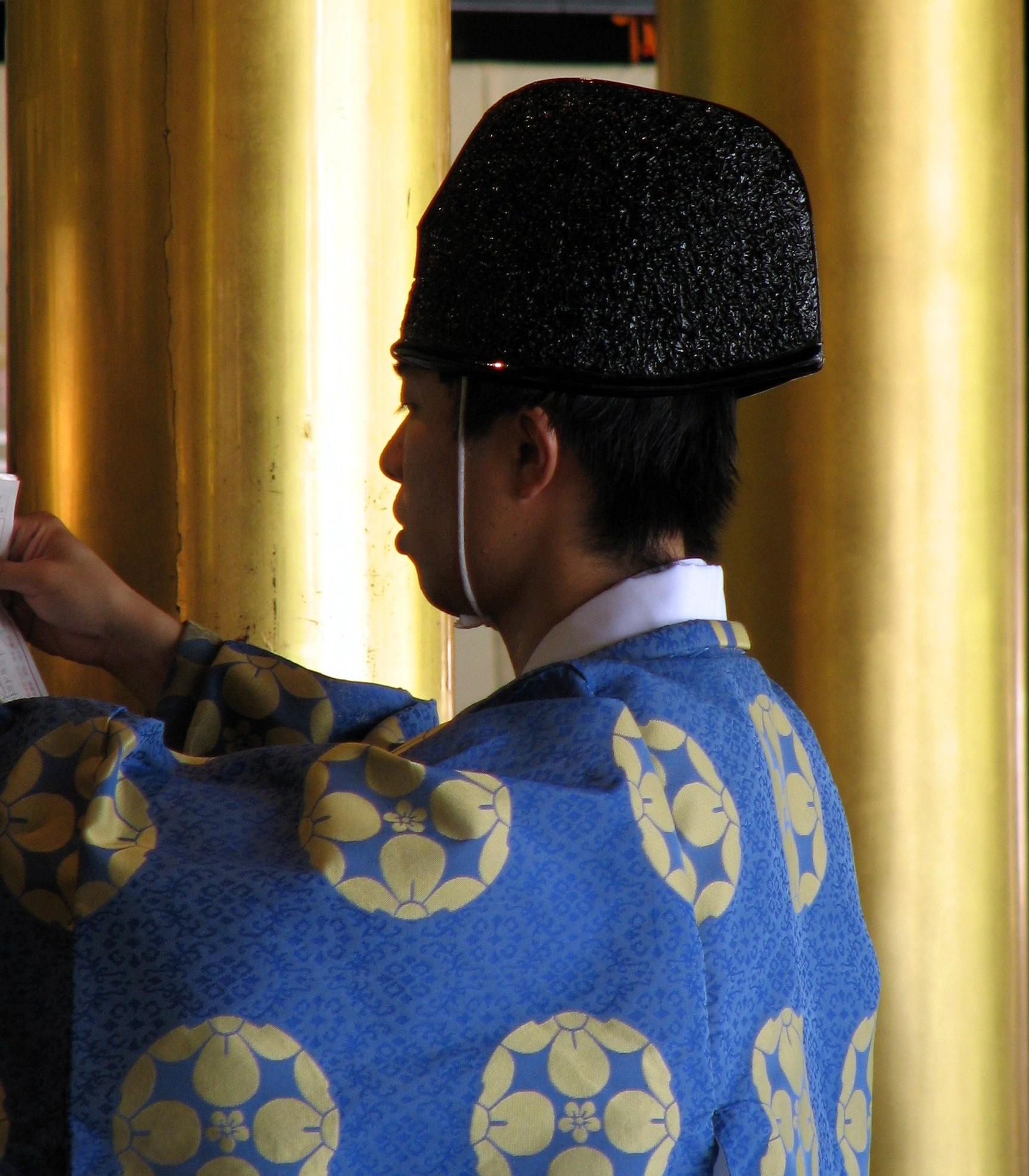 Shinto priest at the Tenmangu shrine in Fukuoka prefecture